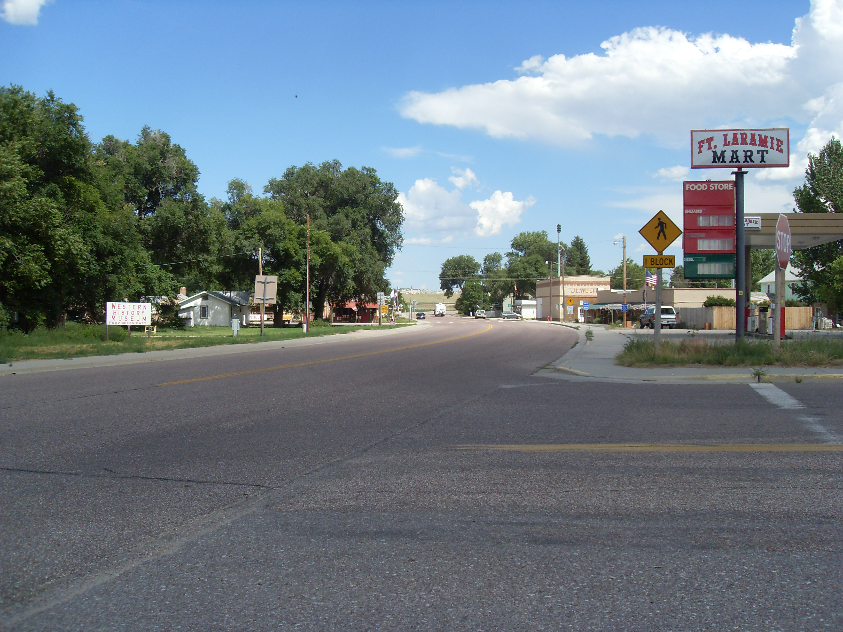 Main Street Fort Laramie (Wyoming)